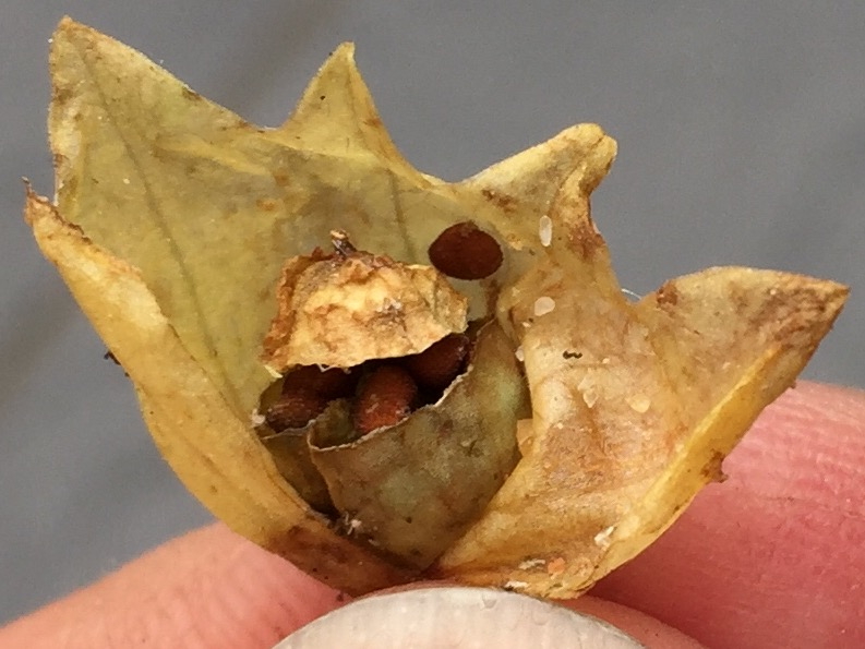 A single ripe (fallen) fruiting calyx of Scopolia carniolica Jacq. dissected to show detail of dehiscence: calyx slit to base, with a single cut, and sides pulled back to reveal two-chambered pyxidium with operculum (lid) still somewhat attached but having liberated a single pitted brown seed and revealing more ripe seeds inside the capsule, ready to be shed.